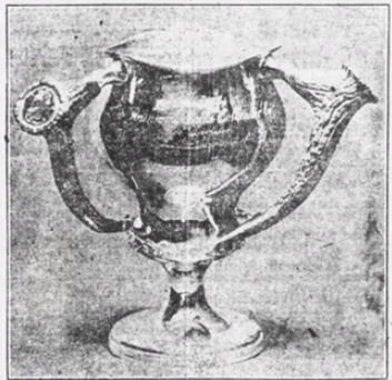 The only known photo of the Brunswick-Balke Collender Cup before its 1921/1922 disappearance